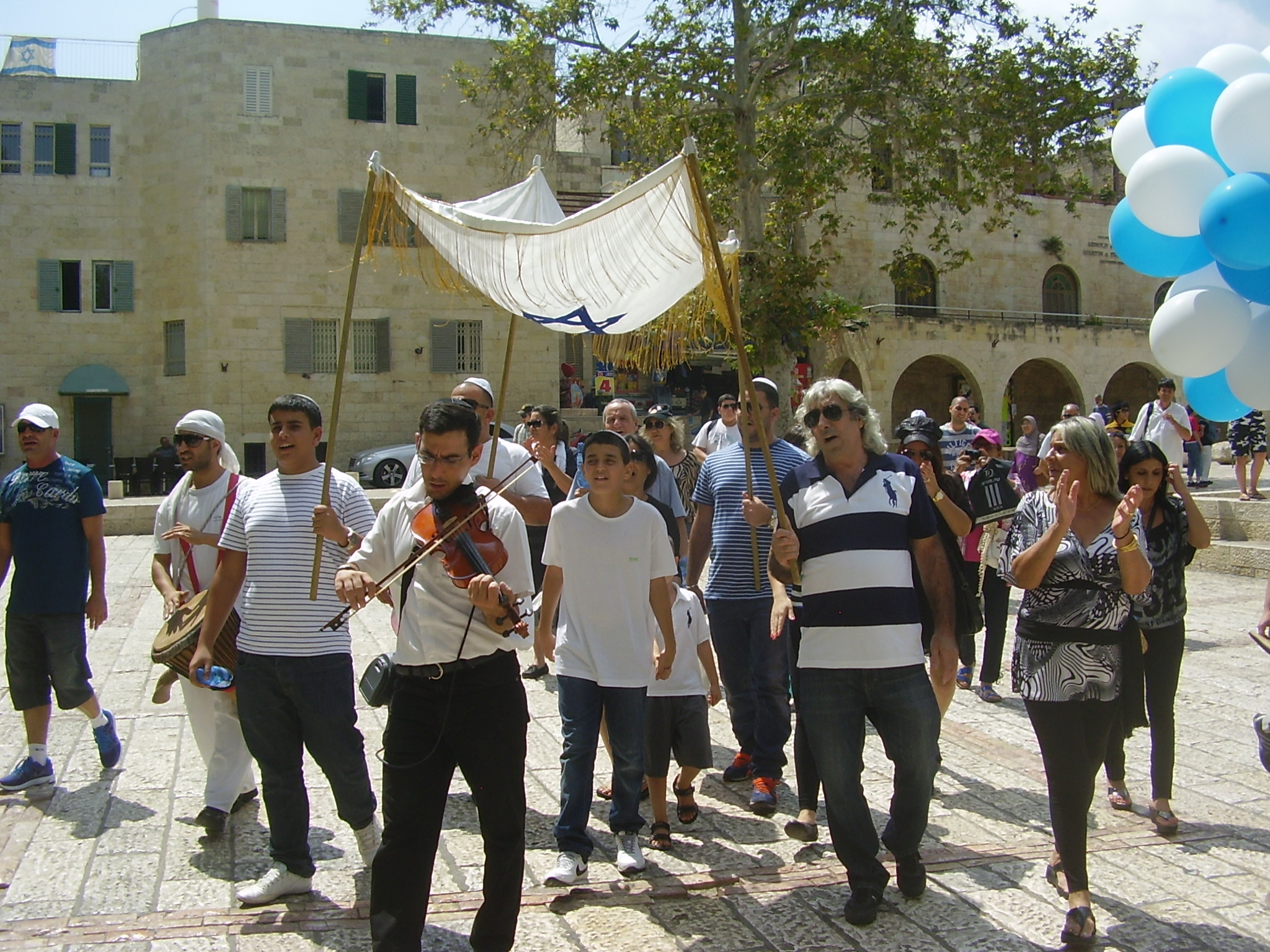 Bar Mizvah parade in old Jerusalem (Hurva Square)